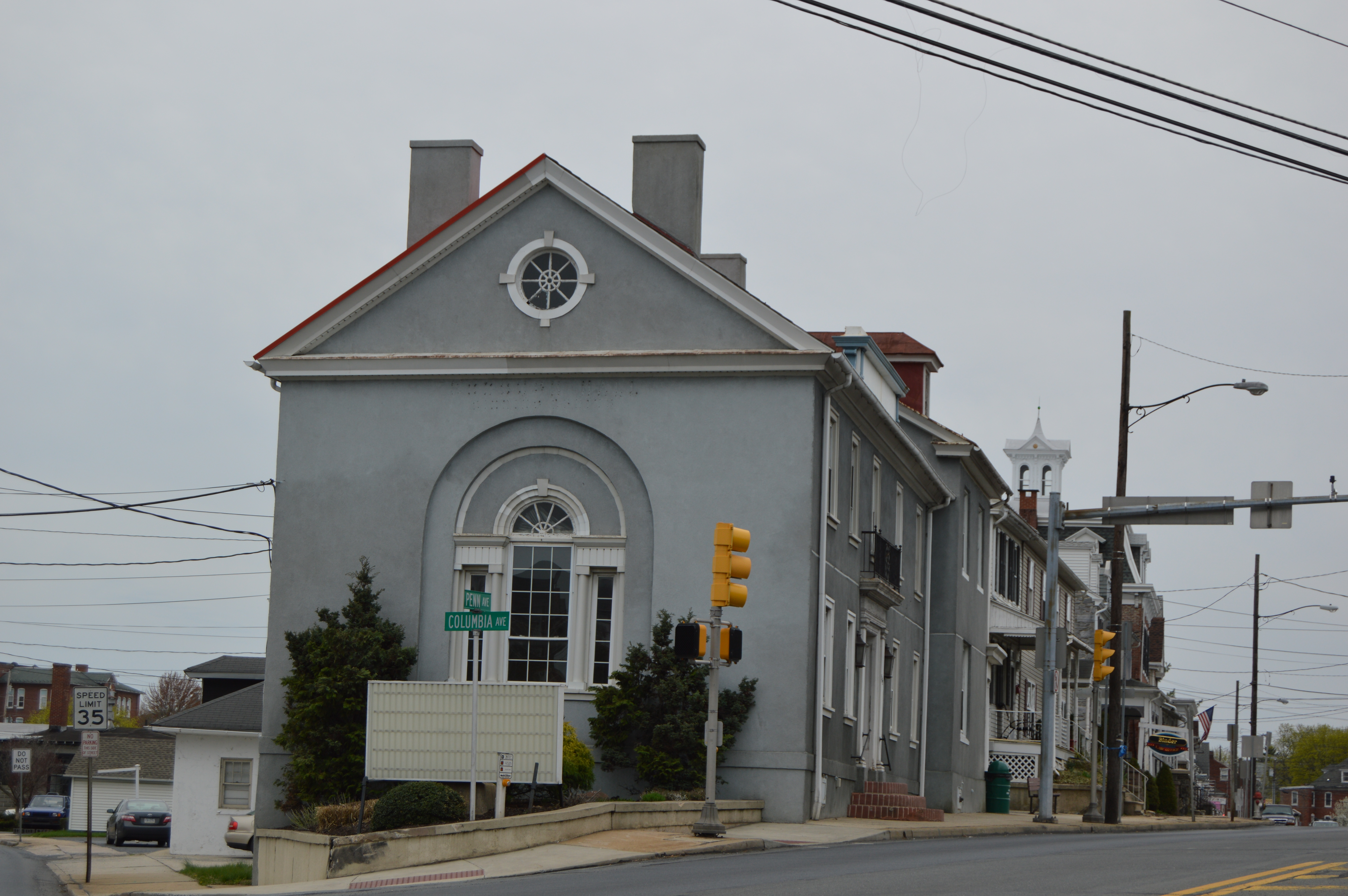 Buildings formerly standing at the junction of Penn (U.S. Route 422) and Columbia Avenues in the commercial district of Sinking Spring, Pennsylvania, United States. Demolished 2016